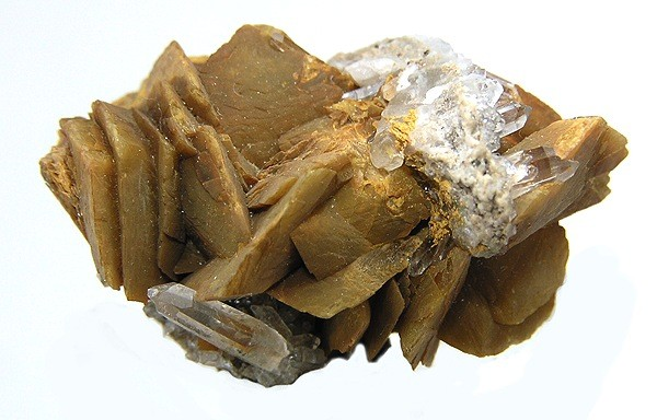 Siderite Locality: Alice, Apex District, Gilpin County, Colorado, USA (Locality at ) An old Colorado siderite, with sharp blades of olive-brown and minor accenting quartz. 3.7 x 2.2 x 1.9 cm